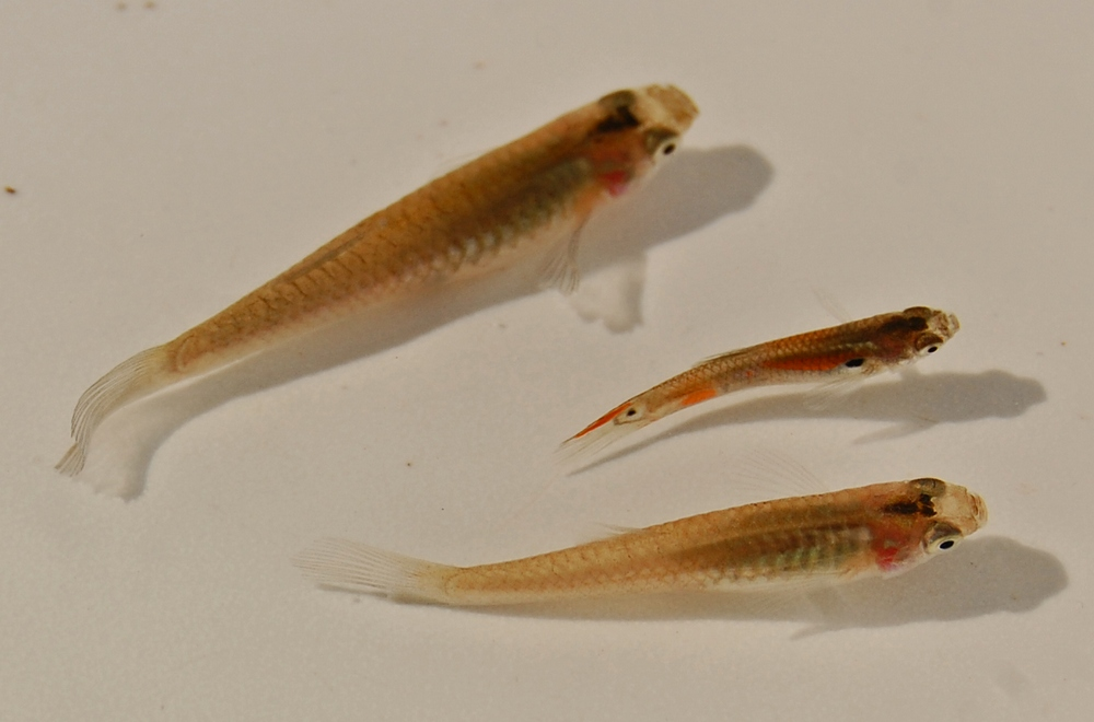 Wild Poecilia reticulata from Ciliwung river, Bogor, West Java, Indonesia. Male between two females.